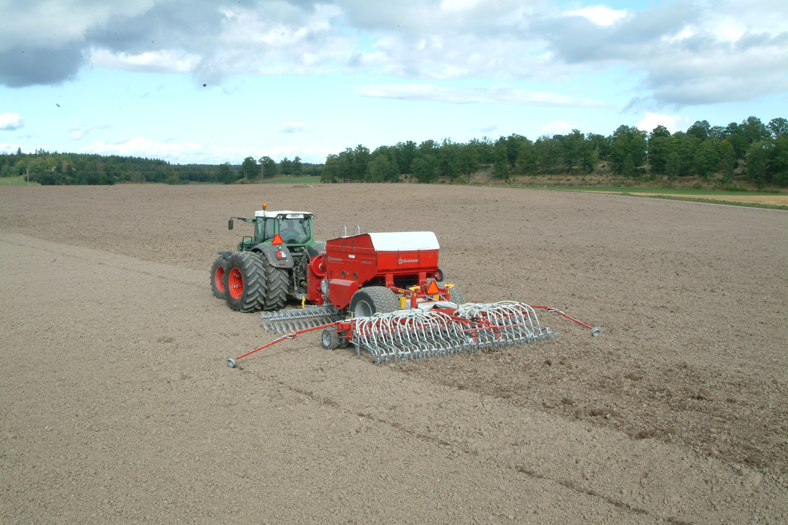 Överums Bruk